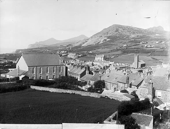 1 negative : glass, dry plate, b&w ; 16.5 x 21.5 cm.